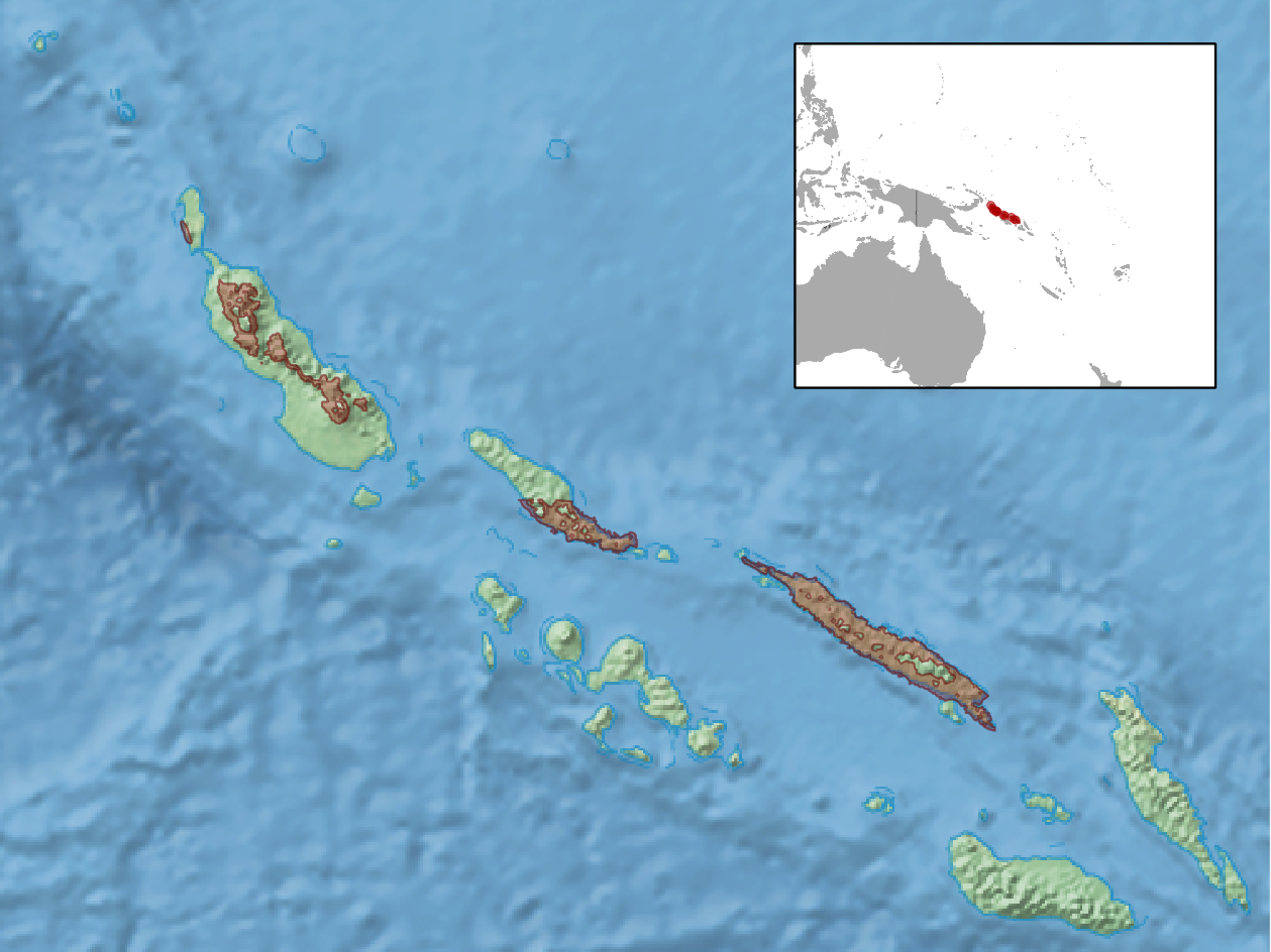 geographic distribution of Palmatorappia solomonis